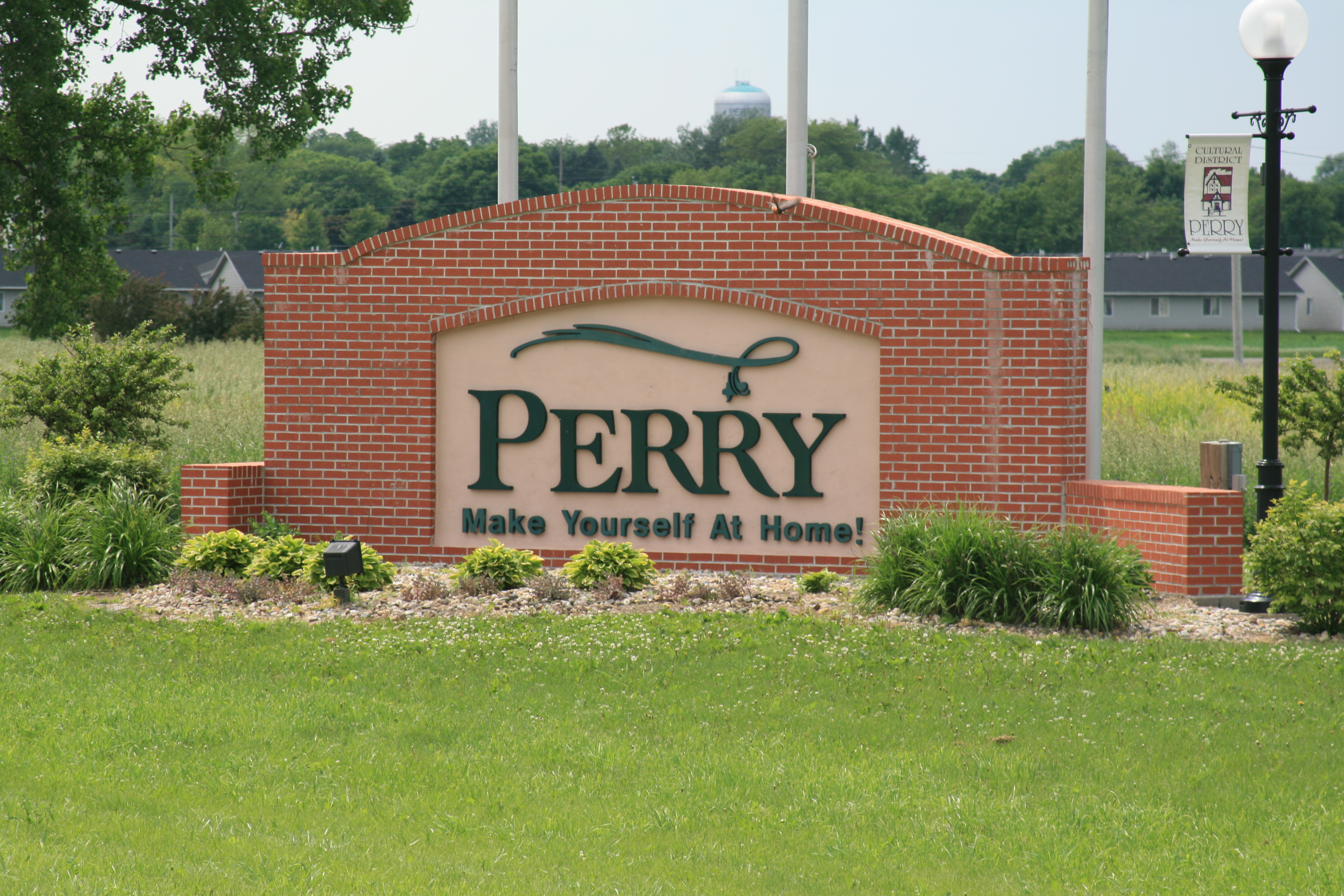 Welcome sign for Perry, Iowa